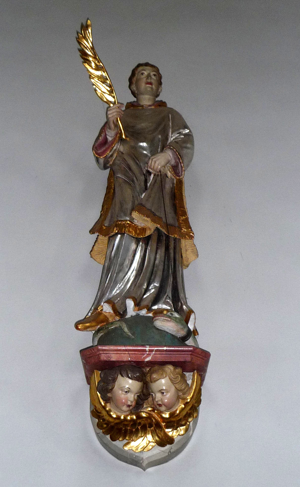 Catholic church in Ludwigshafen-Ruchheim, Germany